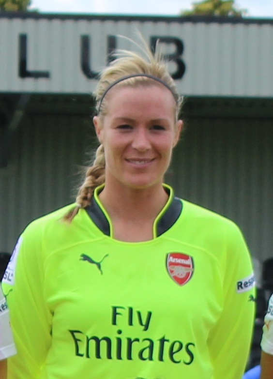 Arsenal Ladies first team photo in the new Puma kit